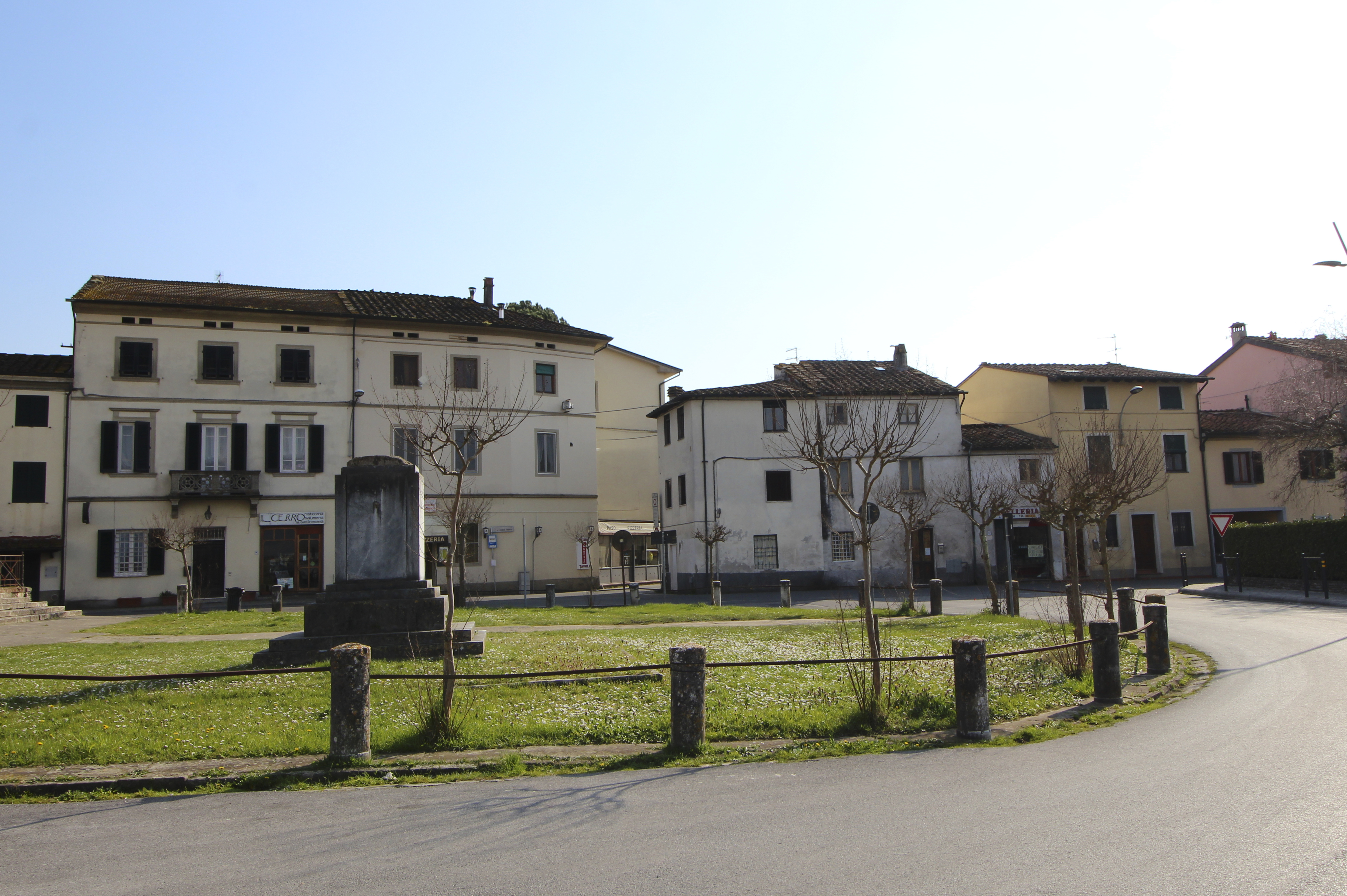 Pieve San Paolo, hamlet of Capannori, Province of Lucca, Tuscany, Italy